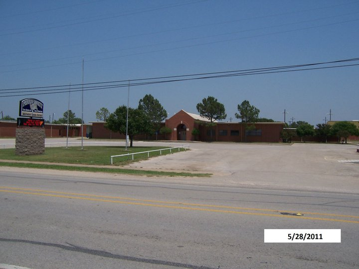 Across Highway 281 Looknig East toward The High School In Perrin Texas